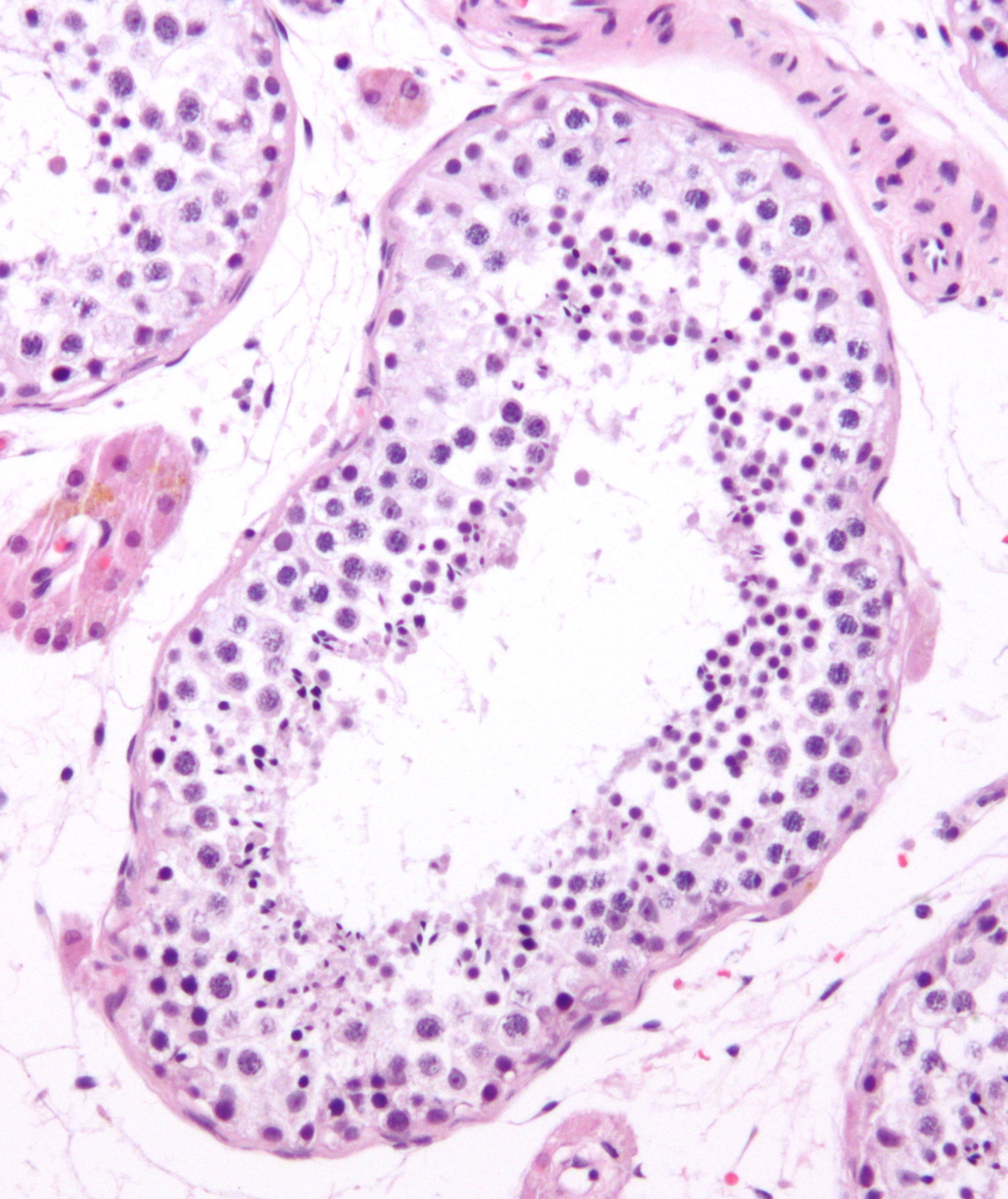 Micrograph of a seminiferous tubule with sperm. H&E stain. Related images High mag. Low mag.